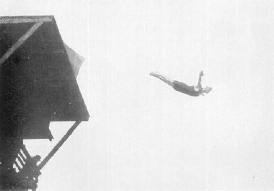 Erik Adlerz competing in the plain and variety diving (10 metre platform) at the 1912 Summer Olympics